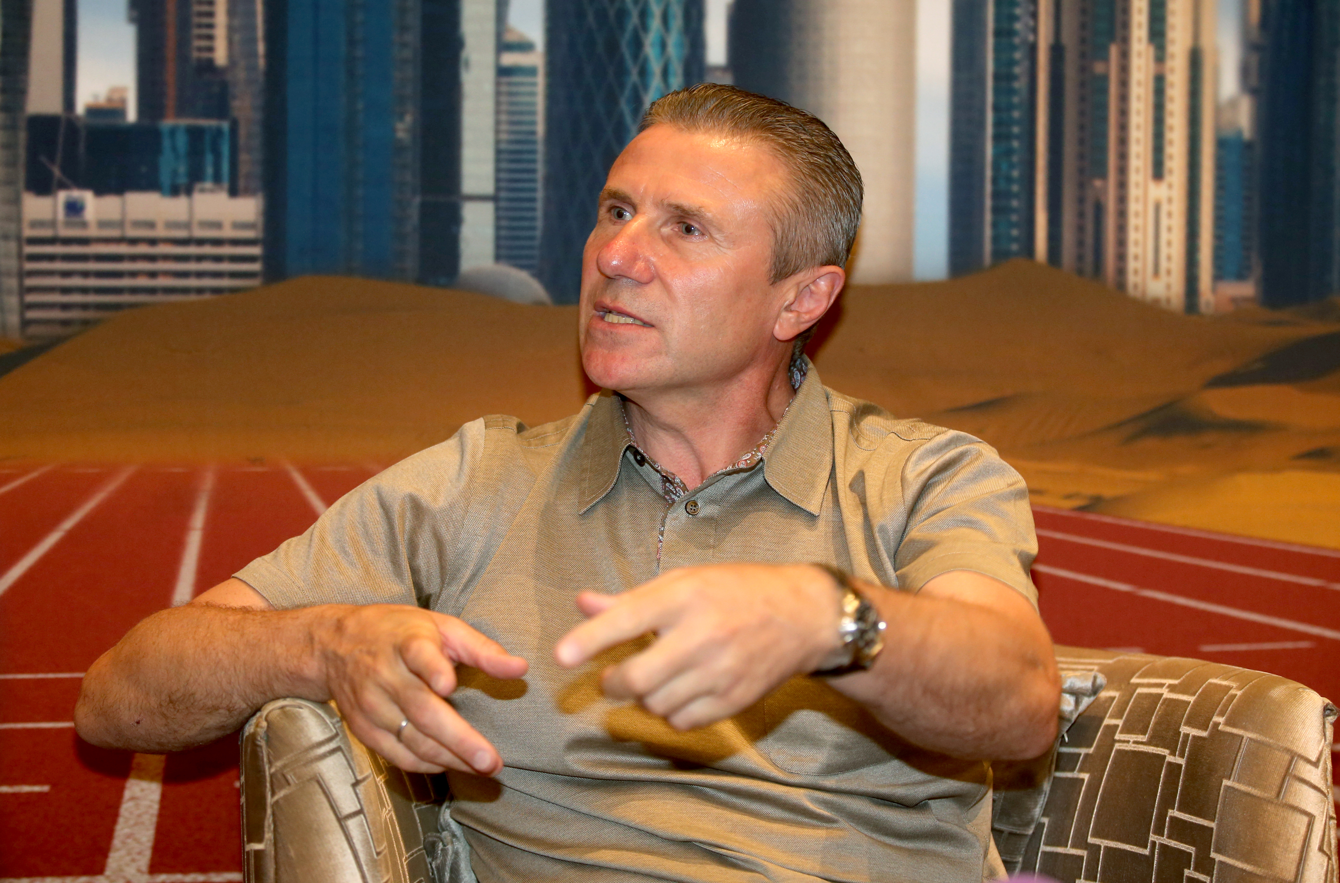 Ukrainian Sergey Bubka during an interactive session during the Doha Diamond League. Pic by Mohan